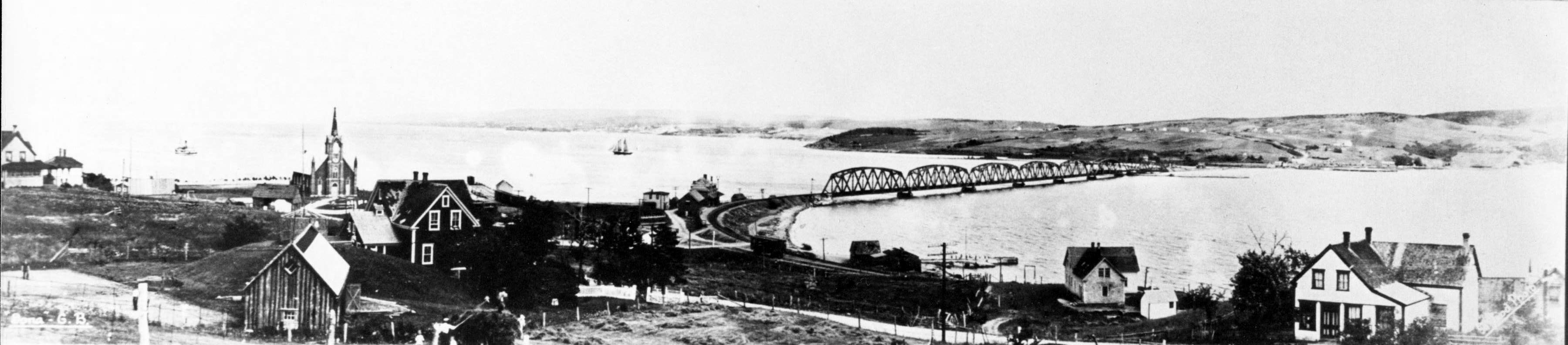 Iona (Scottish Gaelic: Sanndraigh) is a small community in the Canadian province of Nova Scotia, located in Victoria County on Cape Breton Island. It is named after Iona in Scotland. The Grand Narrows Bridge is visible, as is the Grand Narrows Hotel on the far shore.